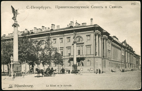 Saint Petersburg (Russia), Senate Square.